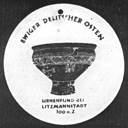 Ceramic medallion issued by the the Gausammlungen of the Winterhilfswerk (WHW). Depicts a funerary urn of the Przeworsk culture (ca. 2nd century AD), found at Biala near Lódz, the urn itself is incised with a swastika symbol. Inscribed with "EWIGER DEUTSCHER OSTEN / Urnenfund bei Litzmannstadt / 100 n. Z." This is nr. 22 of a series of such medallions issued by the WHW entitled "Ewiger Deutscher Osten" ("Eternal German East") in the collection drive of winter 1942/43. Reproduced in Andrej Mikolajczyk, 'Didactic presentations of the past: some retrospective considerations in relation to the Archaeological and Ethnographical Museum, Lódz, Poland' in: Gathercole and Lowenthal (eds.), The Politics of the Past (1990), fig. 19.5, p. 250 (caption "Ceramic medallion issued by the Nazi authorities showing urn with swastika.") The entire series of "Gau 36" (Wartheland) issued in winters 1941/42 and 1942/43 consisted of Neue Heimat Wartheland (1941/42) 007 Am Ziel 008 Aus Bessarabien 010 Aus Galizien 011 Aus Wolhynien 012 Bei 30 Grad Kälte 013 Der große Treck 014 30 Tage Marsch Ewiger deutscher Osten (1942/43) 015 Der große Kurfürst 016 Deutscher Ritterorden[1] 017 Die Hanse 018 Die Wikinger 019 Friedrich der Große 020 General Litzmann 021 Heinrich der Löwe 022 Urnenfund bei Litzmannstadt 023 Wartheland - Kernland des deutschen Ostens 024 Wir sind fest entschlossen Literature: Reinhard Tieste, Spendenbelege des WHW. Band V: Gausammlungen 1933-1945, Gaue 31-40, 1993.[2]